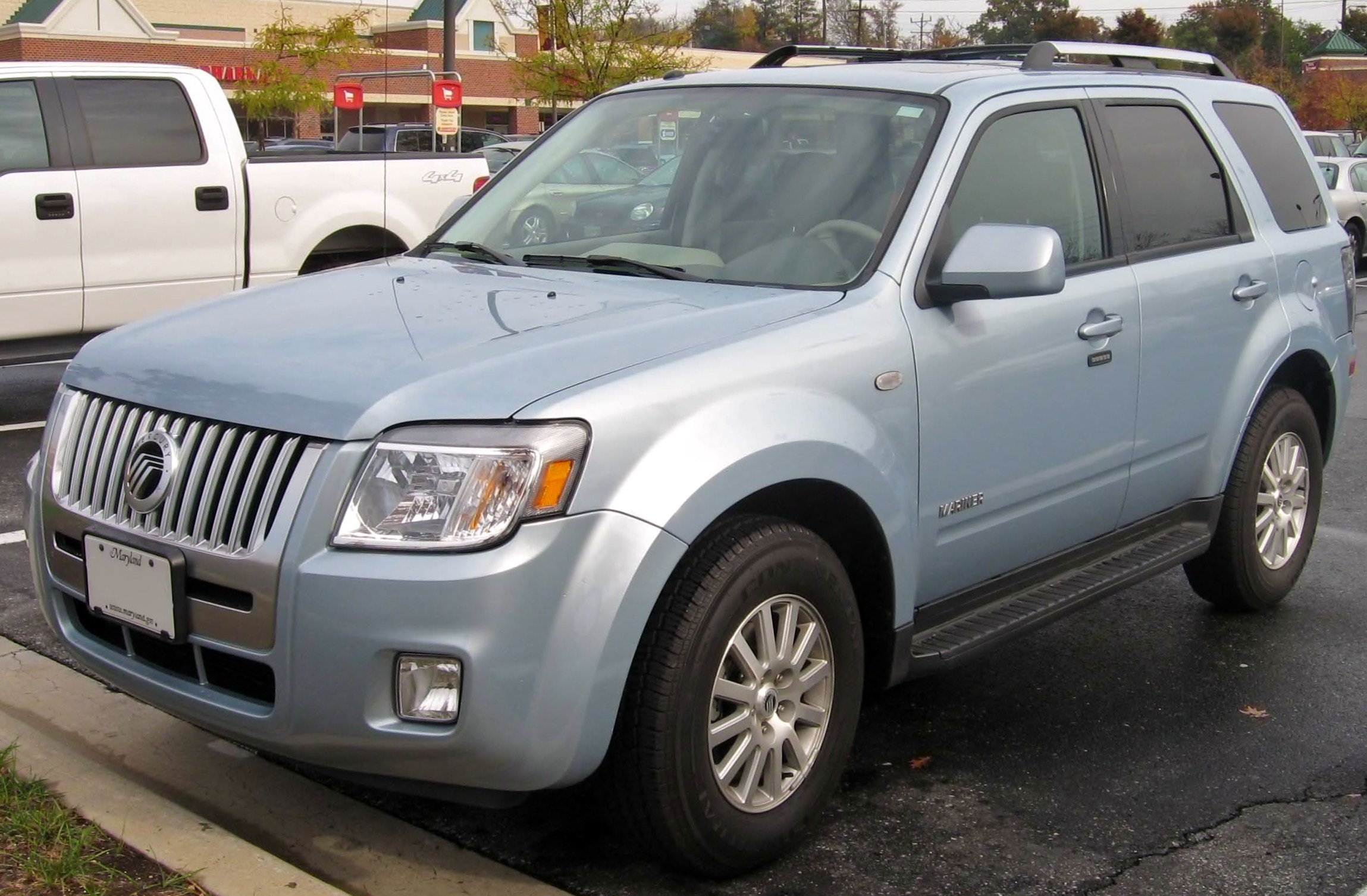 2008 Mercury Mariner photographed in College Park, Maryland, USA.